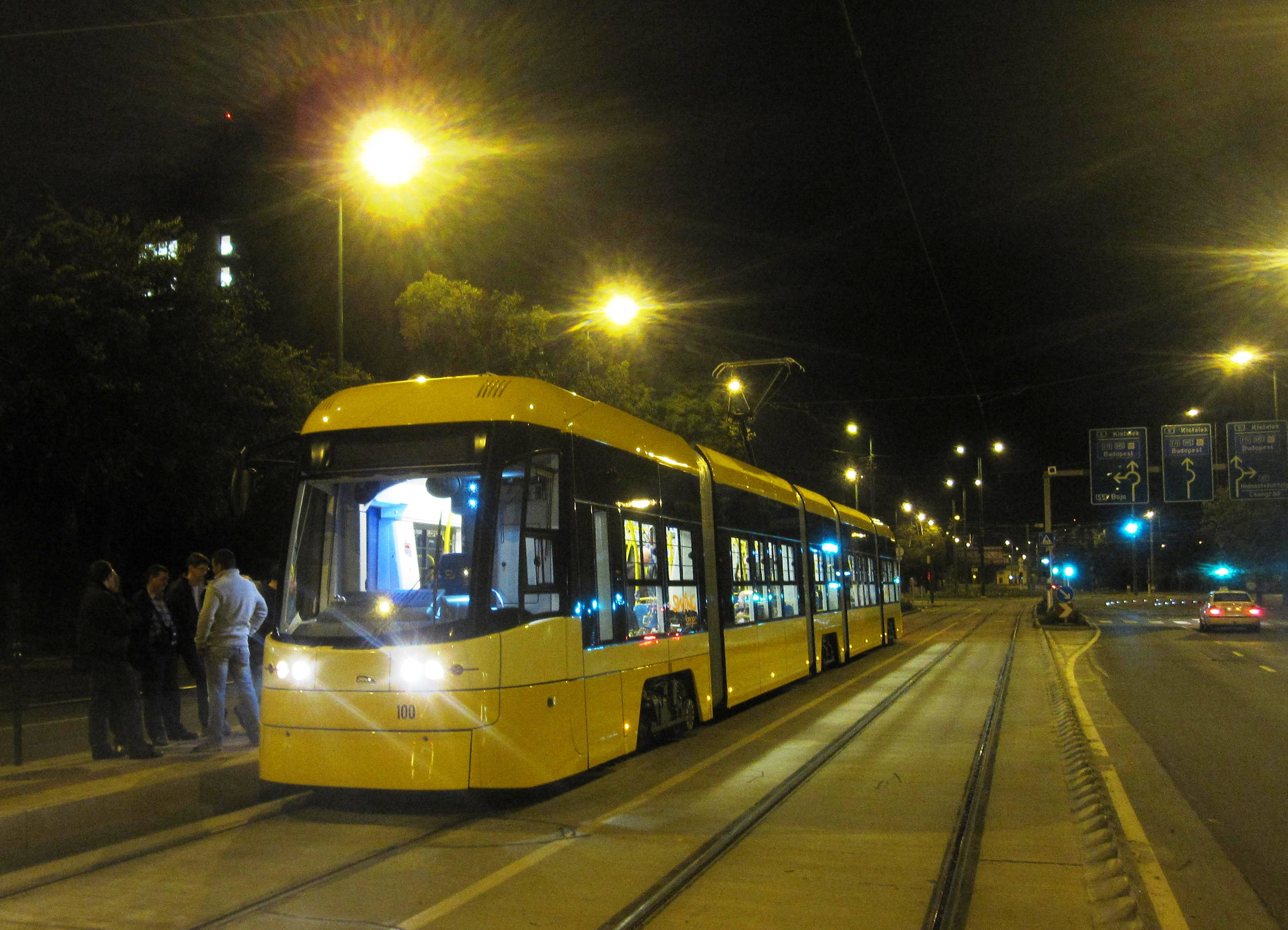 PESA 120Nb type tram